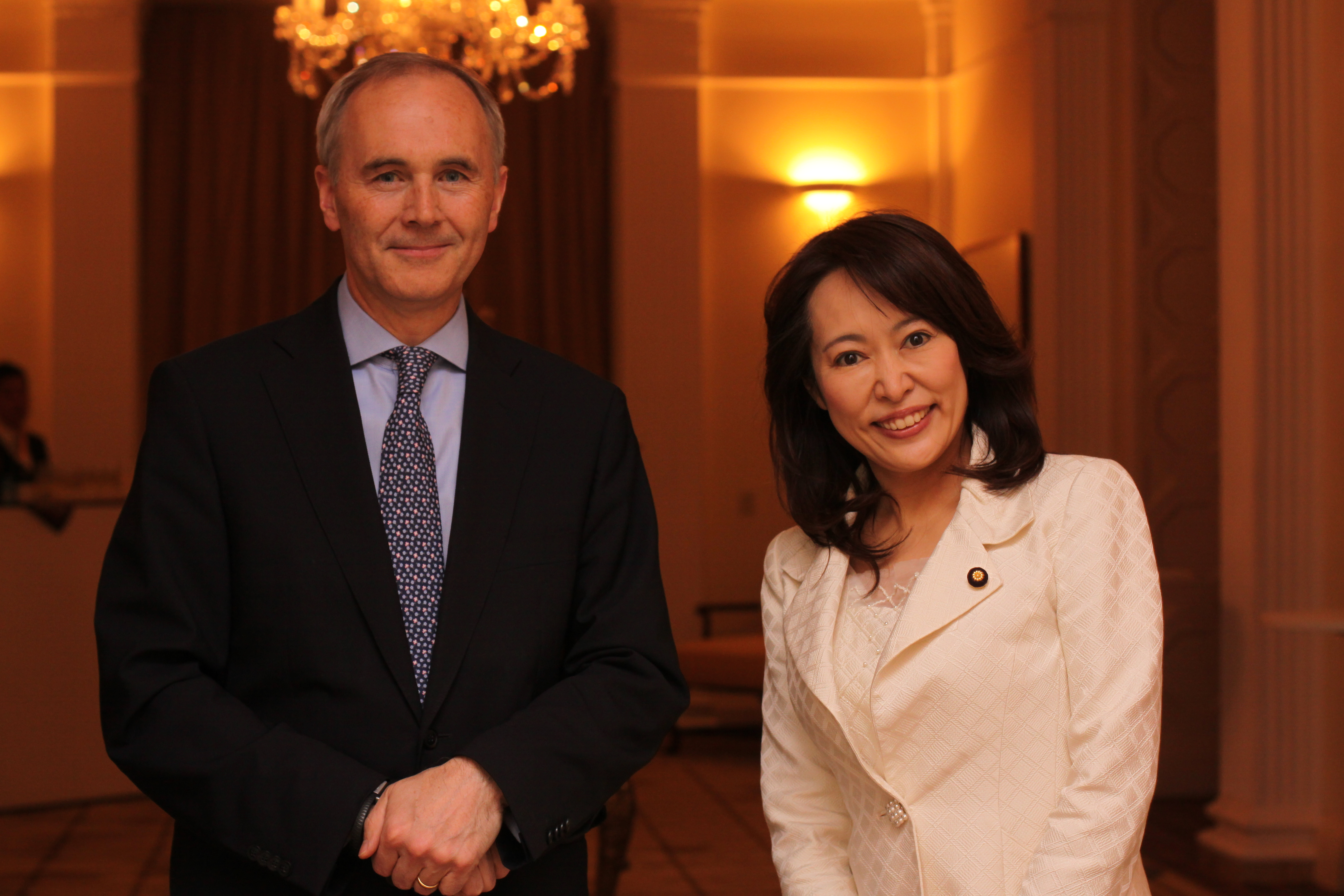 Masako Miyoshi, Member of the House of Councillors, met Tim Hitchens, Ambassador to Japan, at the Embassy of the United Kingdom in Tokyo on April 1, 2015.